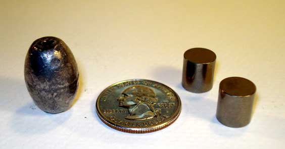 A 0.9 gram lead weight (left) and two cylindrical 0.5 gram tungsten weights (right) for Pinewood Derby cars.